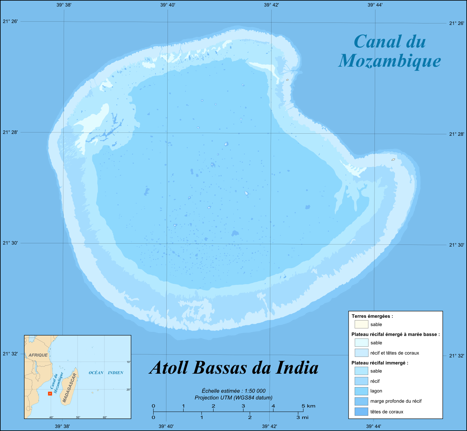 Map in French of the French atoll of Bassas da India, Scattered islands in the Indian Ocean. UTM projection, WGS84 datum Estimated scale : 1:50,000